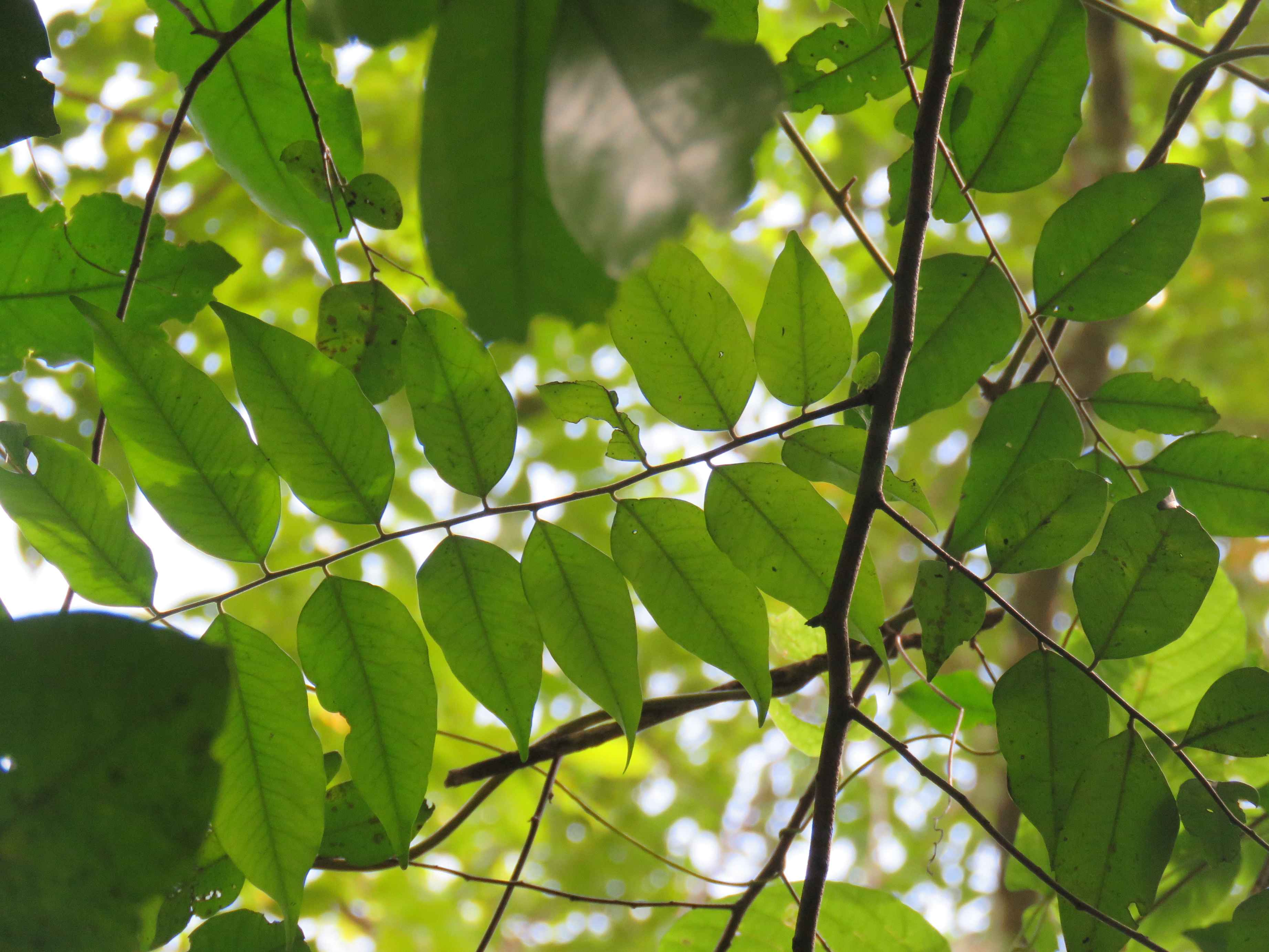 Diospyros kurzii near Wandoor, South Andaman Island, Andaman Islands